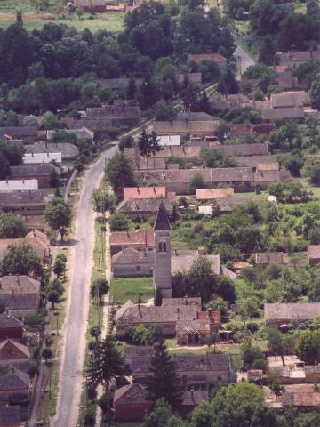 Somogyaracs, Hungary, aerialphotography